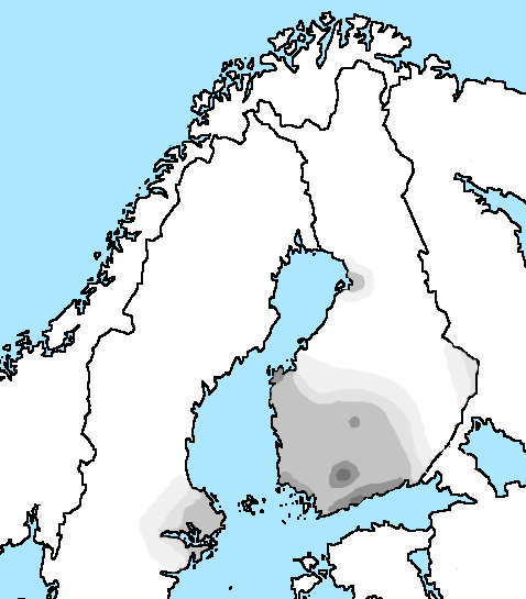 Finnish kalo